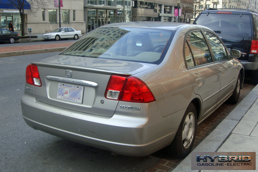 Gasoline-Electric Honda Civic Hybrid at Washington, D.C. Hybrid badging zoom in added with Photoshop